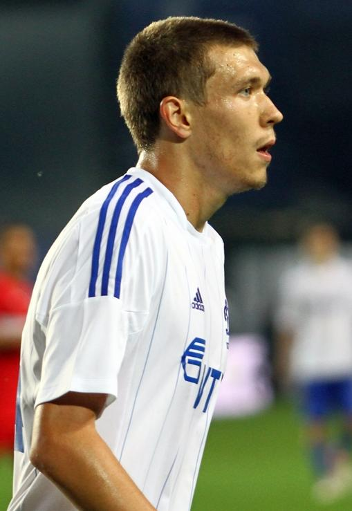 Nikita Chicherin with FC Dynamo Moscow in 2012.